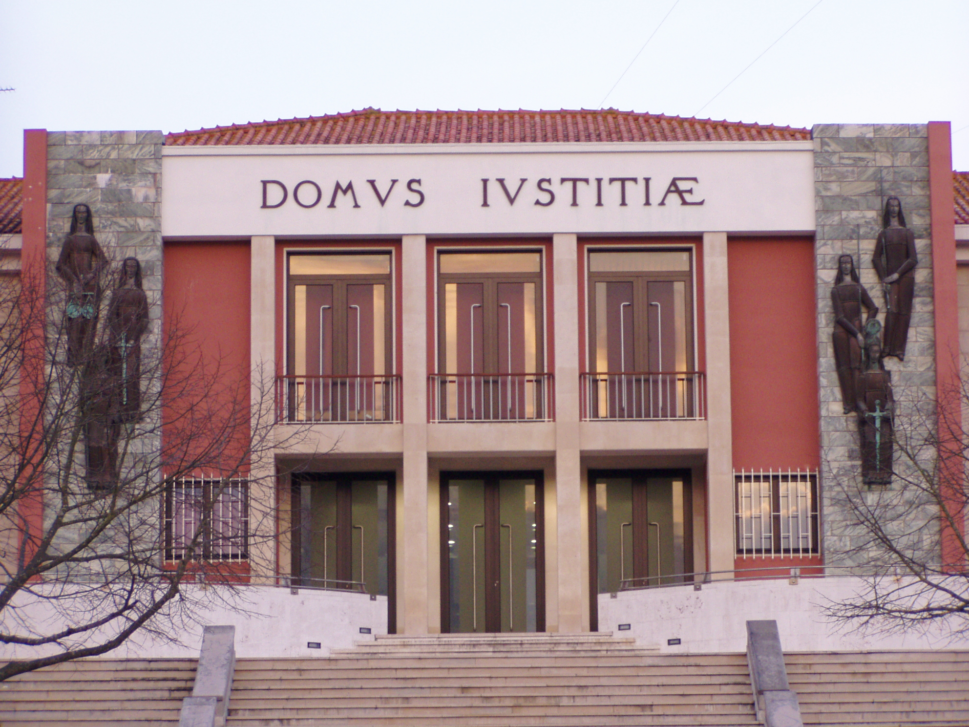 Court House of Alcobaça, Portugal.